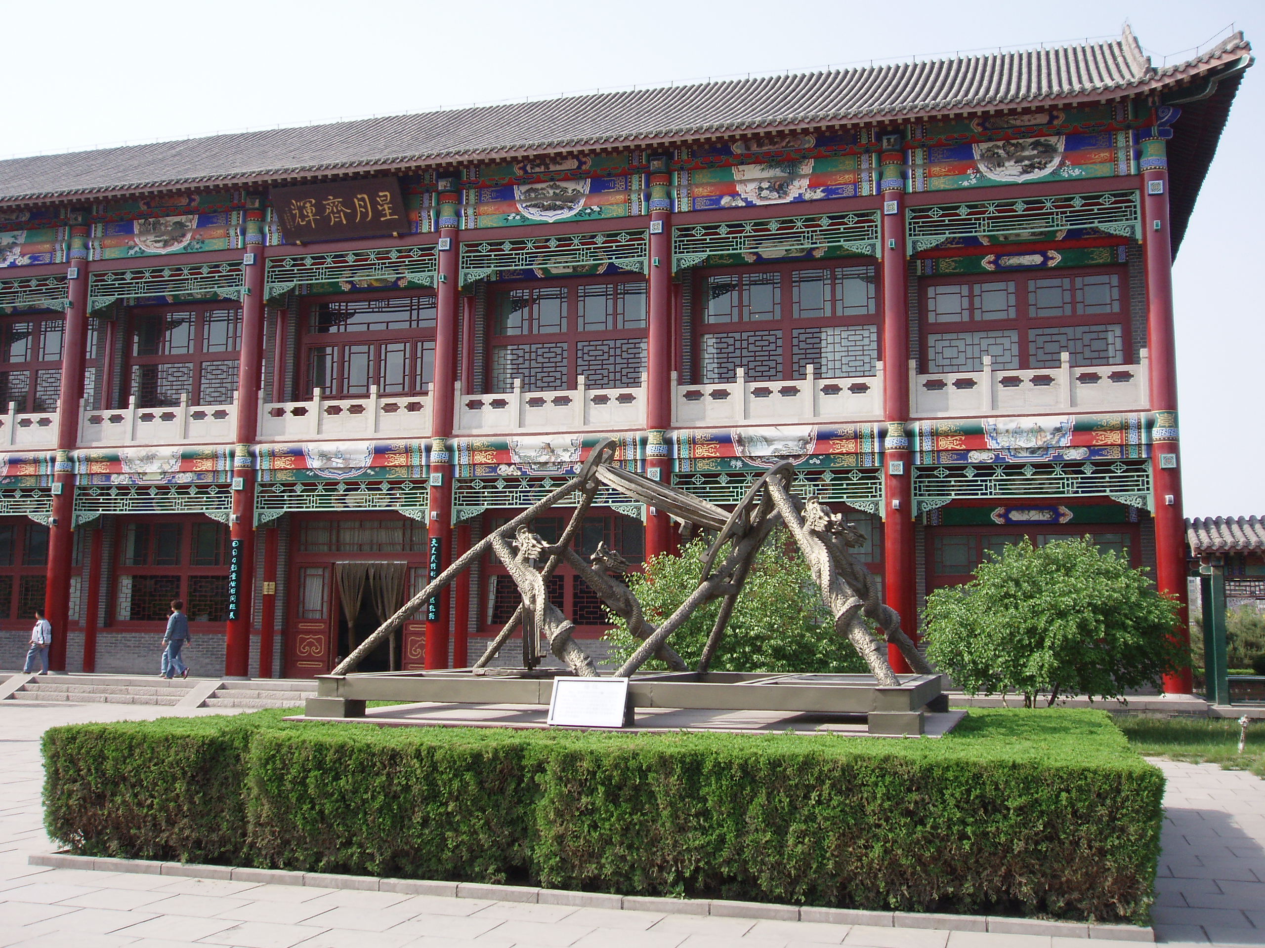 Museum in memory of Gou Shoujing in Xingtai, Hebei,China